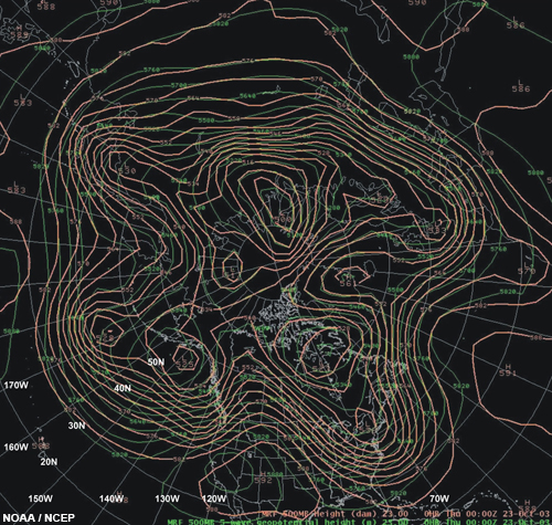 NOAA/NCEP 500 hPa graphic for October 23, 2003